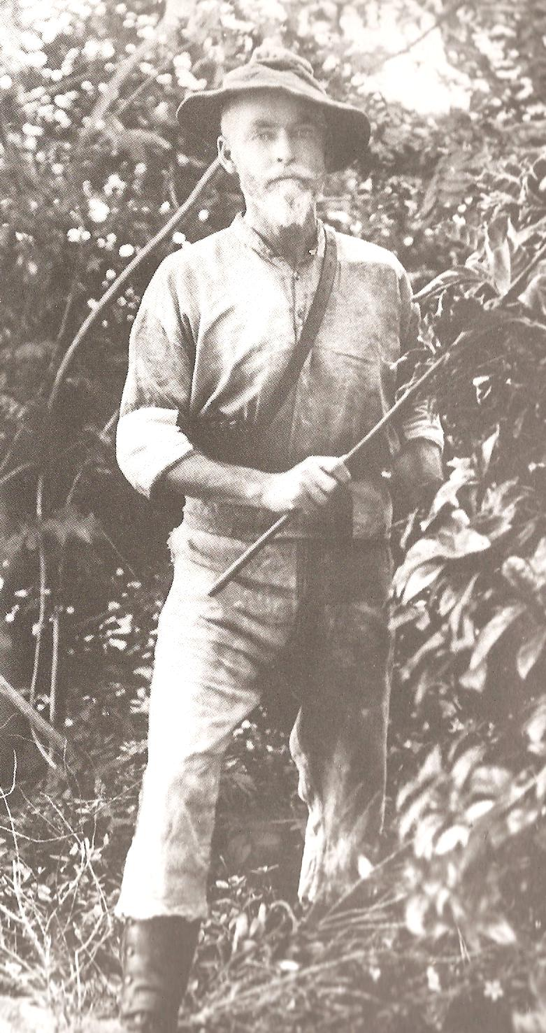 Arthur Henry Neumann c1902